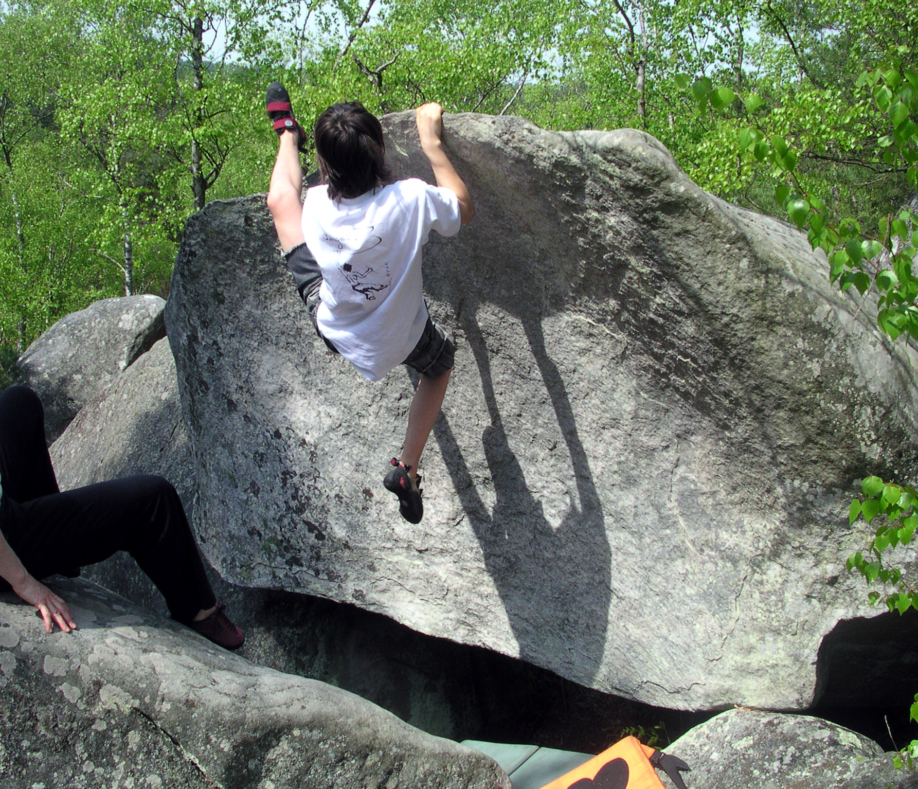 Bouldering on the yellow route at the Apremont Valley (Fontainebleau forest) Auteur Romary mai/May 2006